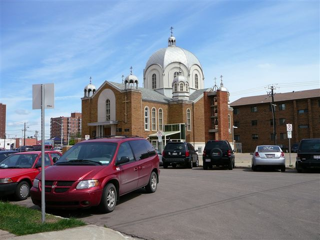 Picture taken by me, John Fleming, June 2006. St. Barbara's is one of the distinctive buildings in the Boyle Street neighborhood of Edmonton. The parish celebrated its 100th anniversary in 2002.